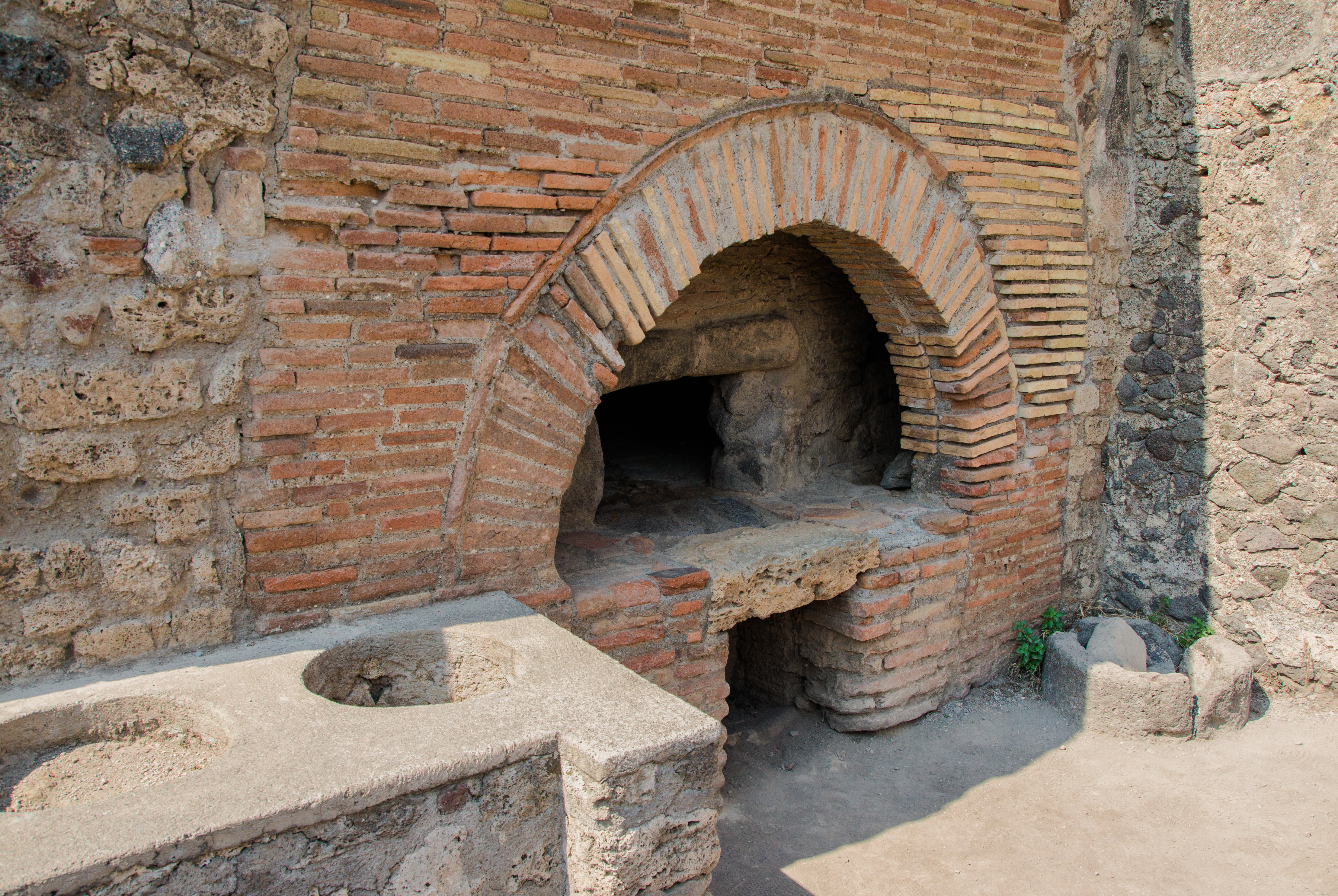 Oven in Pompeii, Italy.